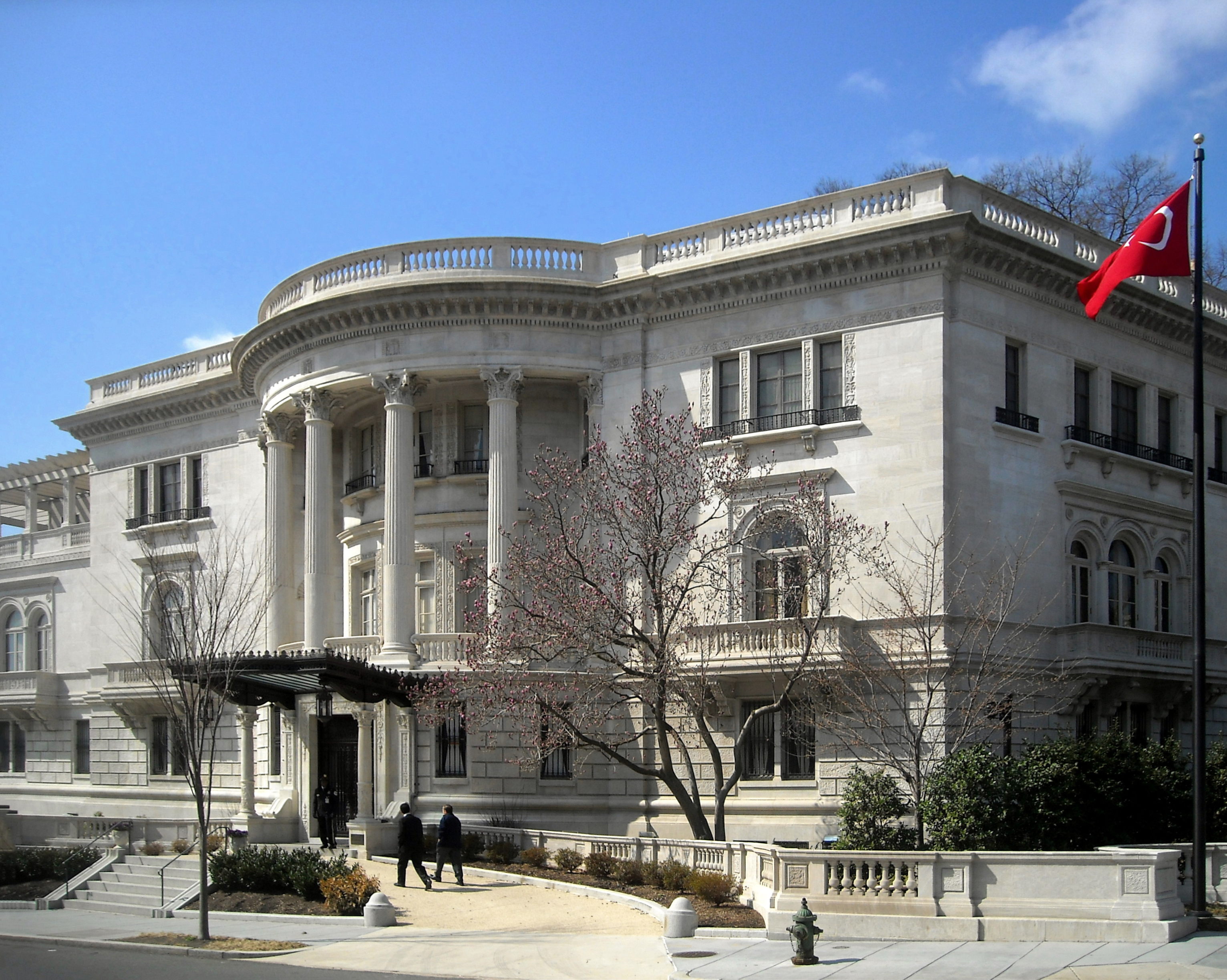 The Turkish Ambassador's residence (also known as the Edward H. Everett House) — located at 1606 23rd Street N.W., in the Sheridan-Kalorama neighborhood of Washington, D.C. Designed by local architect George Oakley Totten, Jr., the Beaux-Arts mansion was built from 1910–1914 for businessman Edward Hamlin Everett. The home and its furnishings were purchased by the Turkish government in the 1930s, and from 1932–1999 the Everett House served as the Embassy of Turkey. When a new chancery was constructed at 2525 Massachusetts Avenue, NW, the Everett House became the Turkish ambassador's residence. The Everett House is a contributing property to the Sheridan-Kalorama Historic District and Massachusetts Avenue Historic District, both listed on the National Register of Historic Places in Washington, D.C..